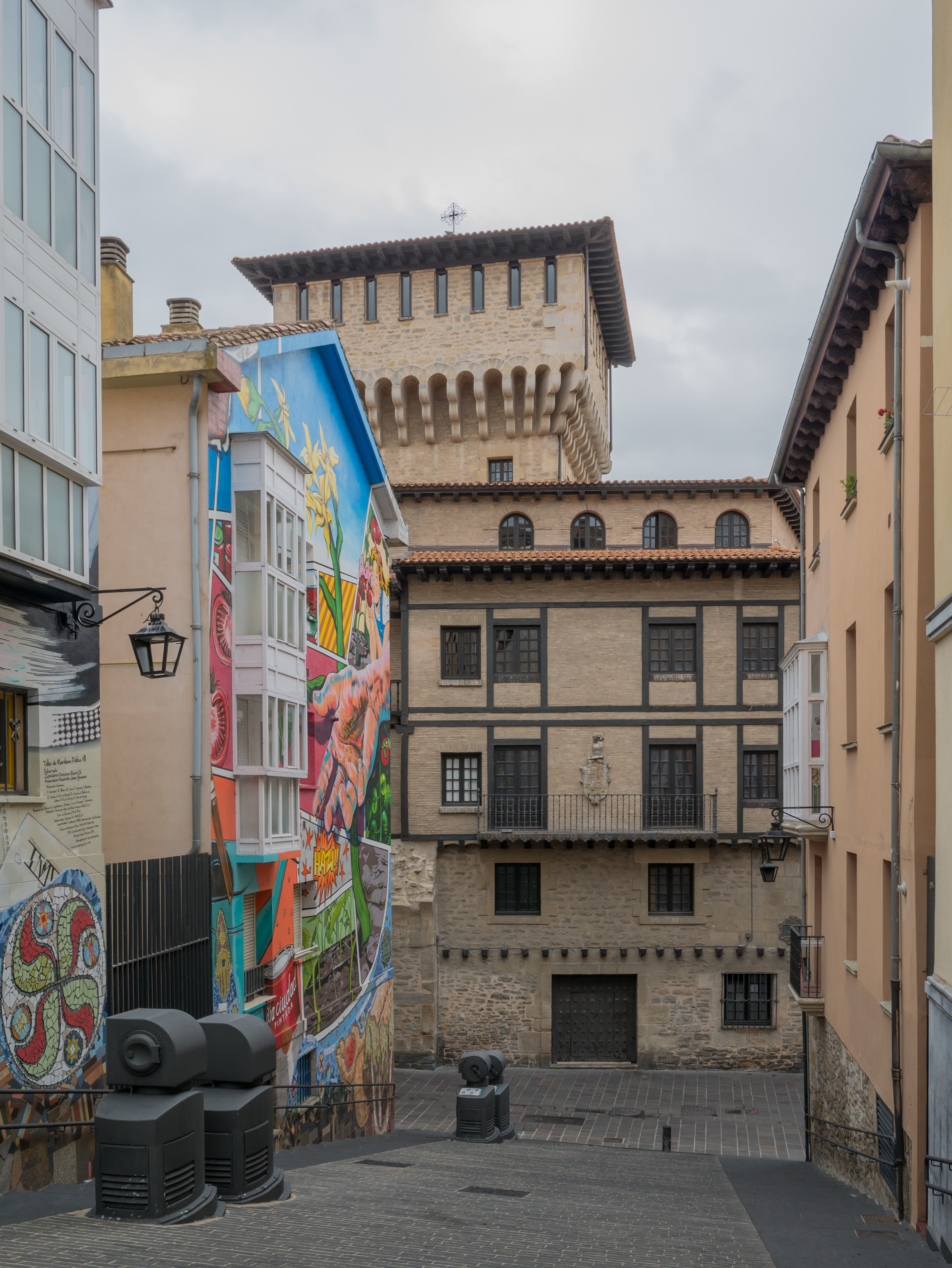 Street "Cantón de las Carnicerías" in Vitoria-Gasteiz. Tower "Doña Otxanda", painted houses and pneumatic waste collection system. Basque Country, Spain